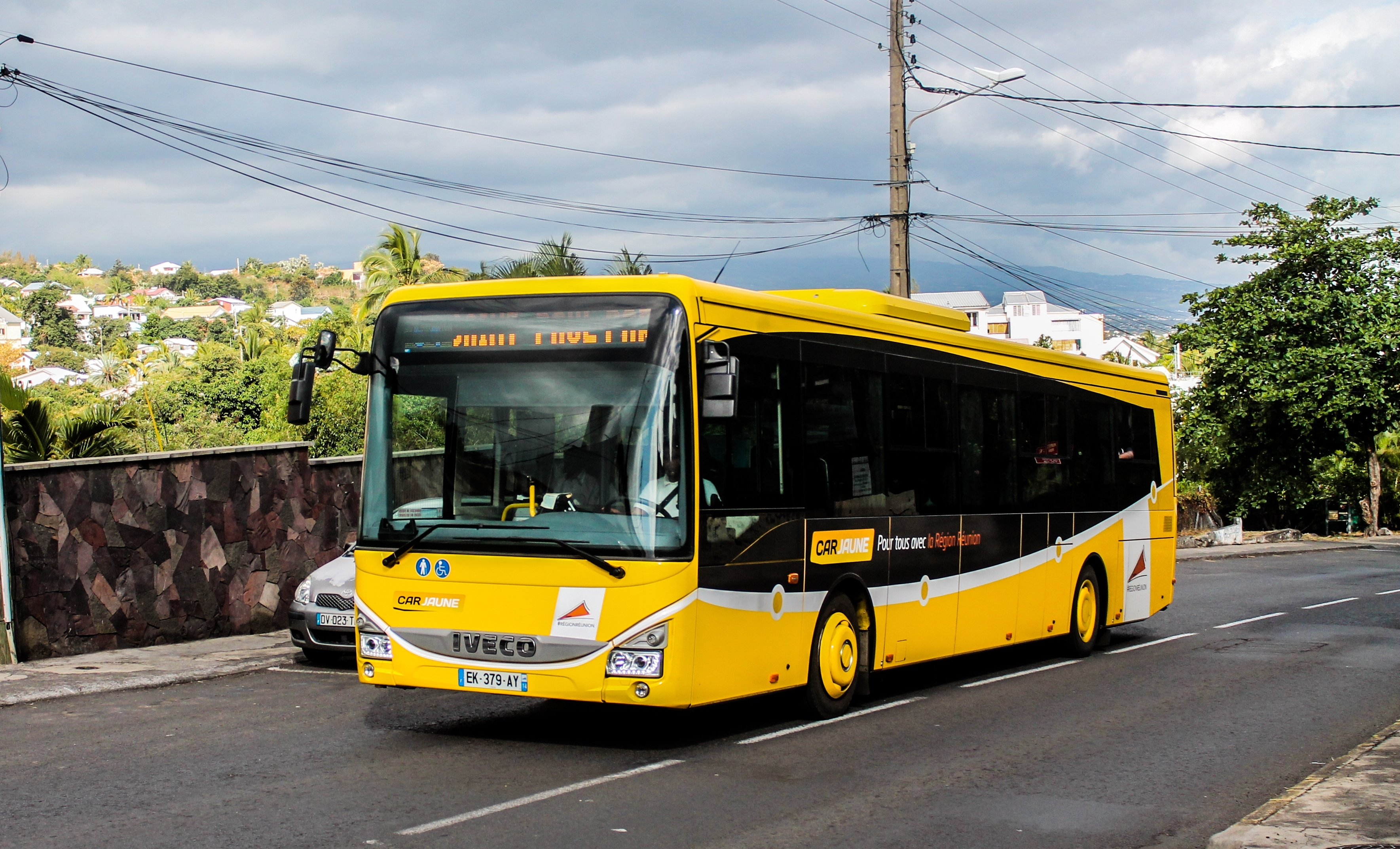 Iveco Crossway LE Car Jaune